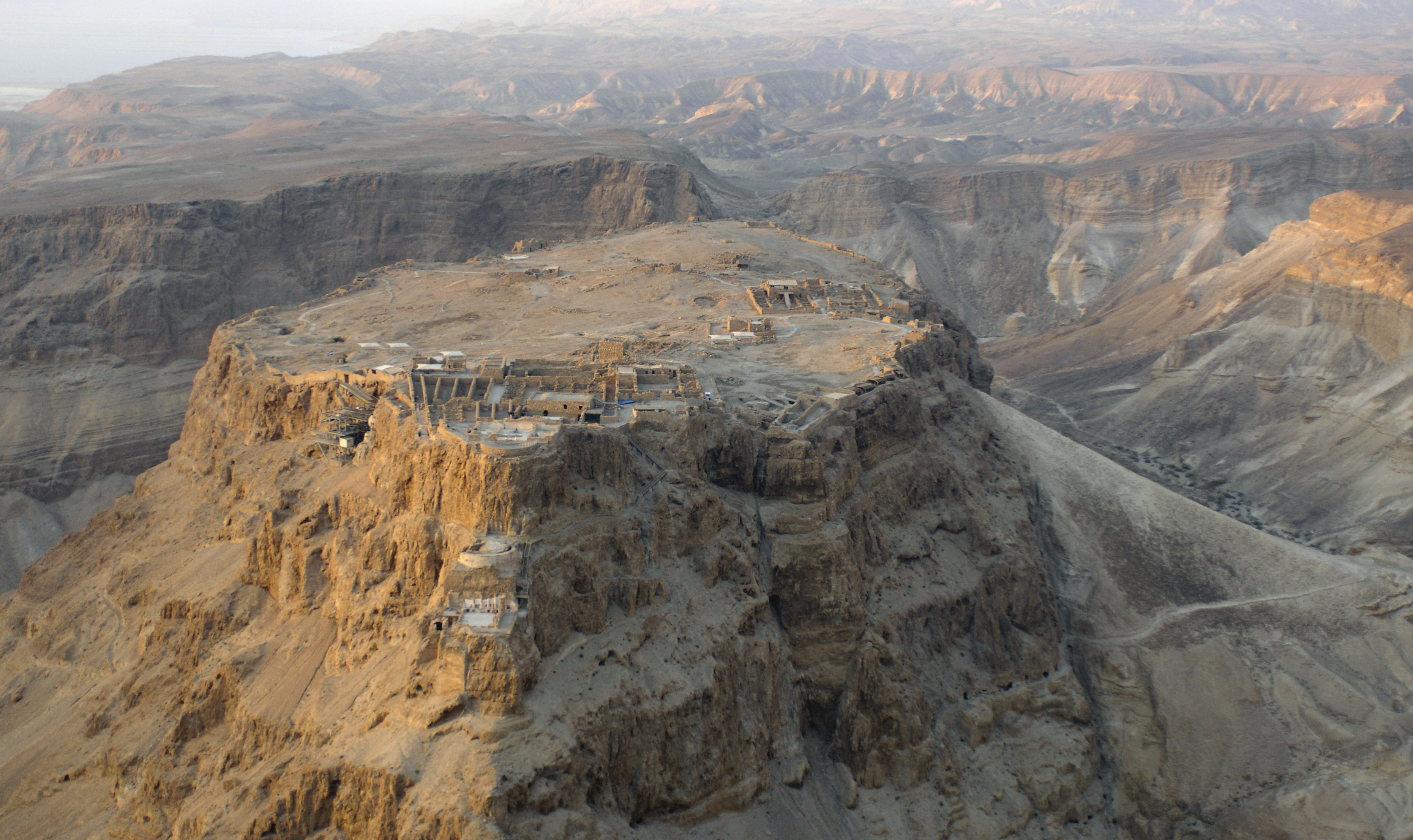 Aerial photograph of Masada (Hebrew מצדה), Israel.